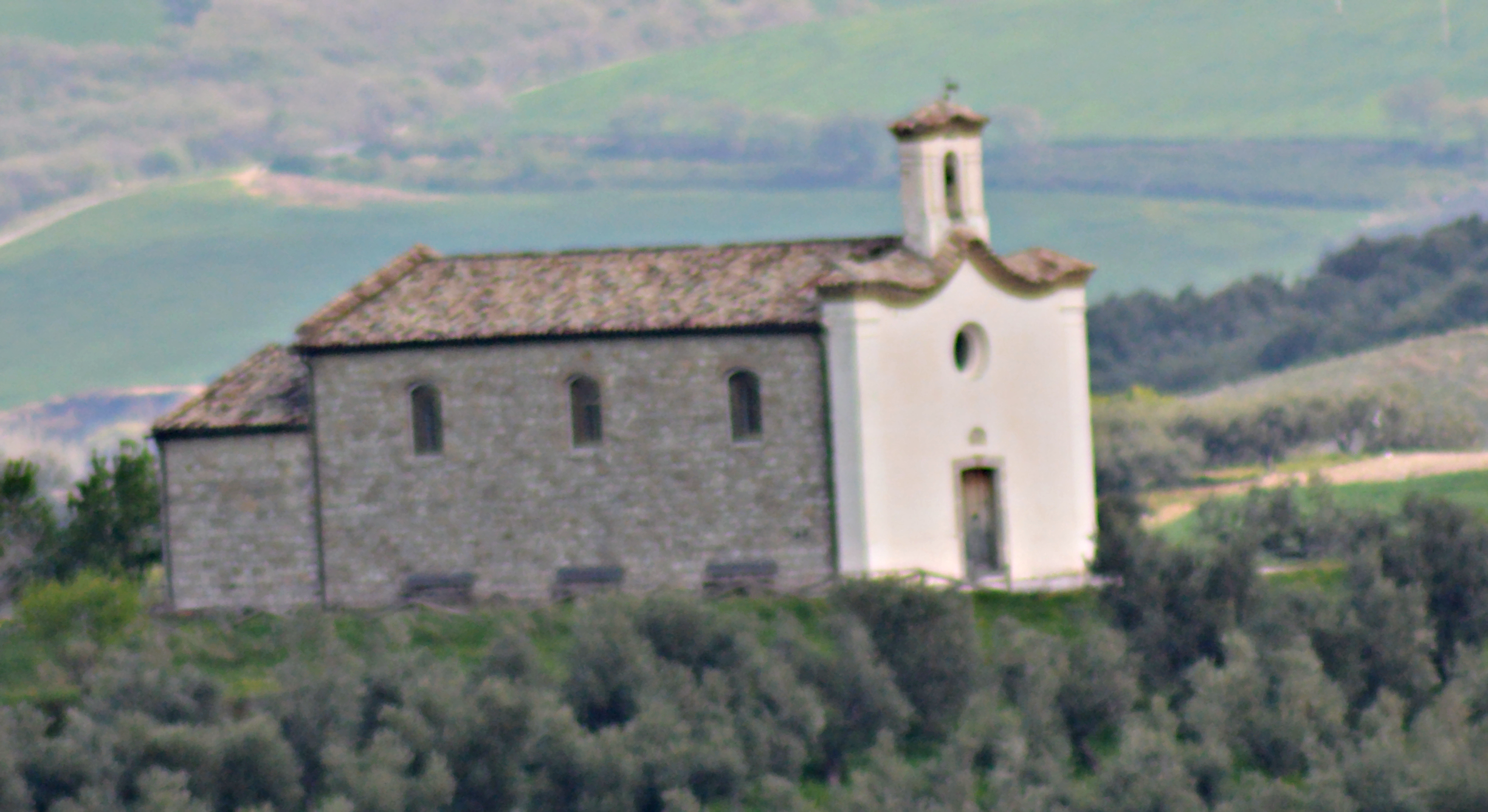 Santa Maria di Laureto , little church near the Colletorto village in Molise, Italy